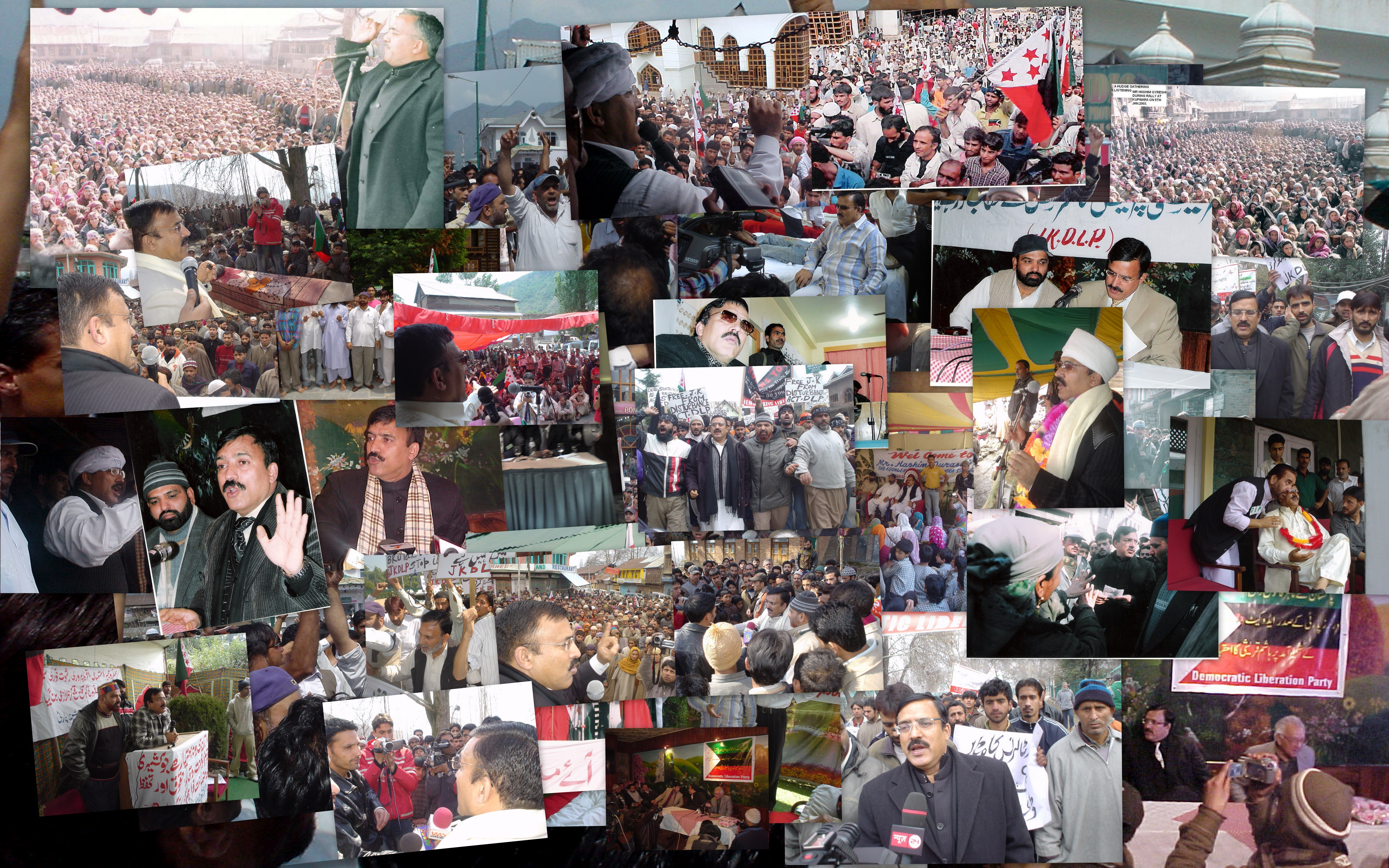 JKDLP and Hashim Qureshi